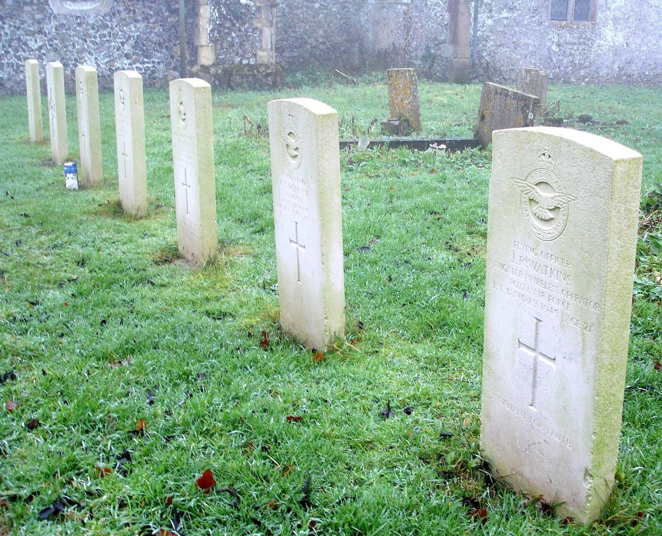 Commonwealth War Graves Commission headstones in St Andrew's parish churchyard, Little Massingham, Norfolk. They mark the graves of seven Second World War airmen from nearby RAF Great Massingham.